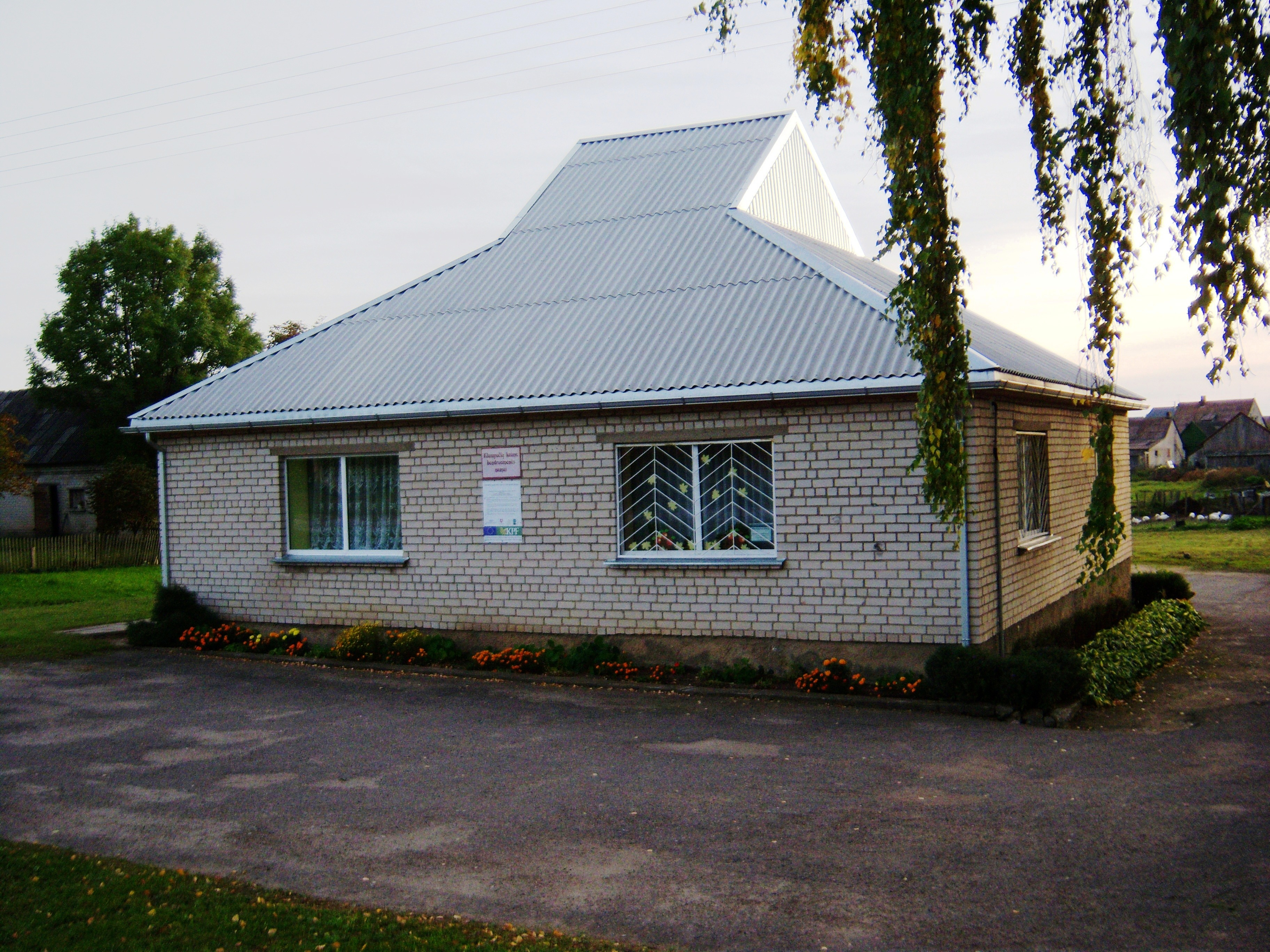 Community House, Klampučiai, Vilkaviškis District, Lithuania